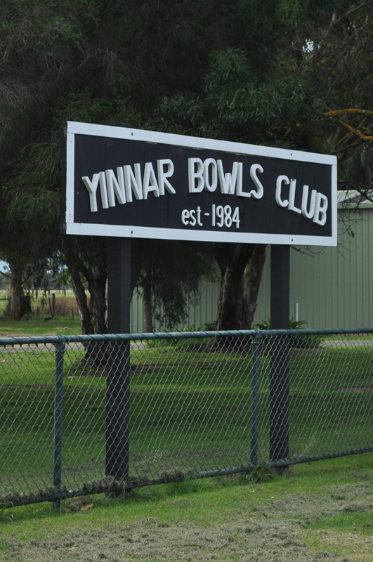 Yinnar Bowls Club Sign